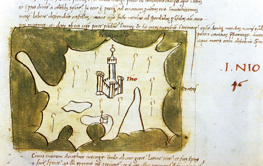 Cristoforo Buondelmonti, Liber Insularum Archipelagi (1420), Ios island, Aegean Sea